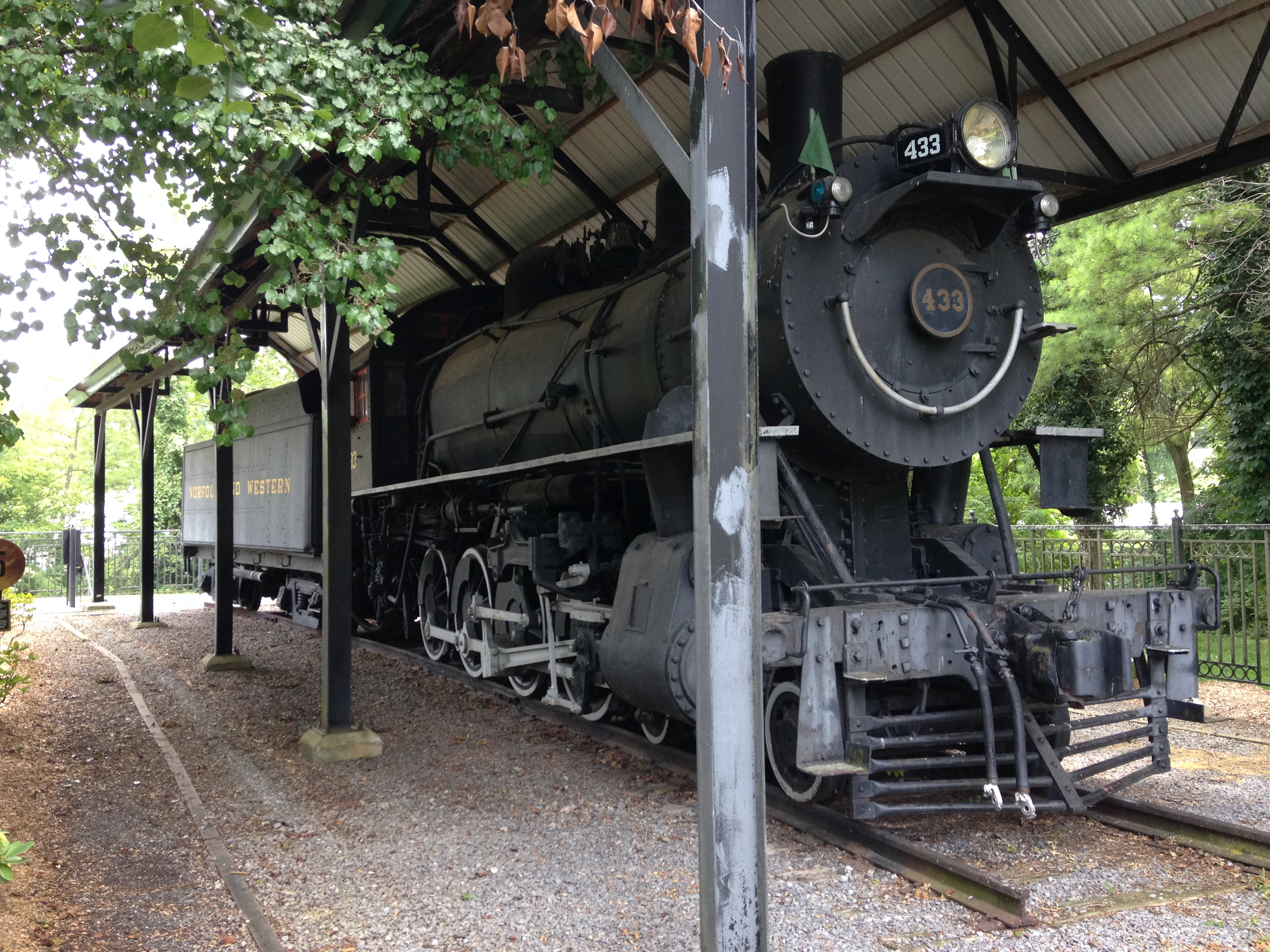 Original Locomotive No. 433 at the trail head of Virginia Creeper Trail